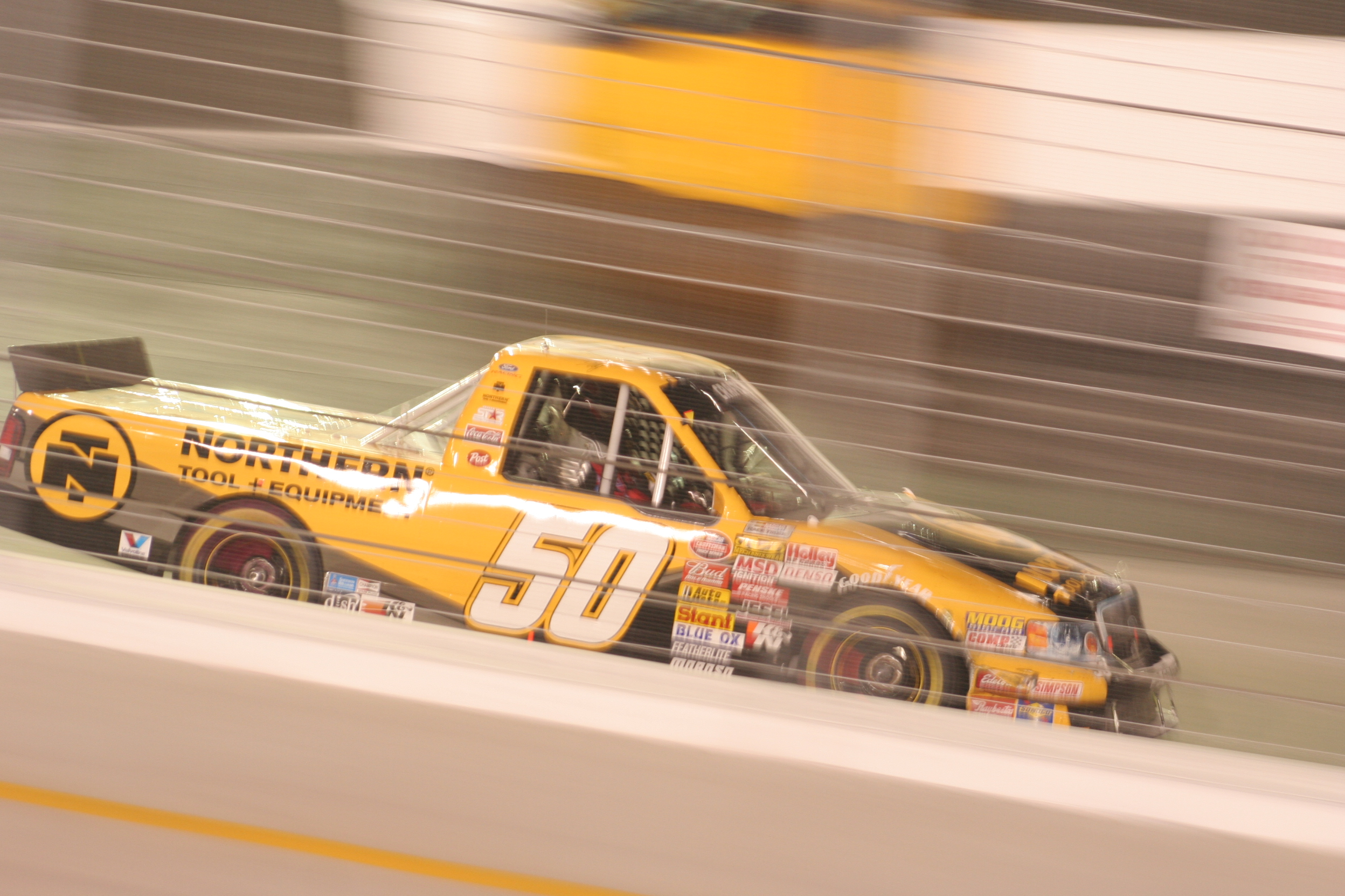 The truck of NASCAR Craftsman Truck Series driver Danny O'Quinn at the August 2007 Bristol race